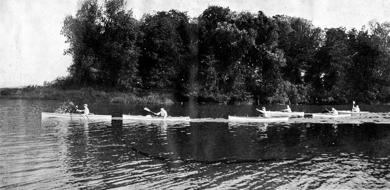 Djurgårdsloppet (Djurgården rundt) 1907. An early canoe race arranged since 1902 by Föreningen för Kanot-Idrott in Stockholm